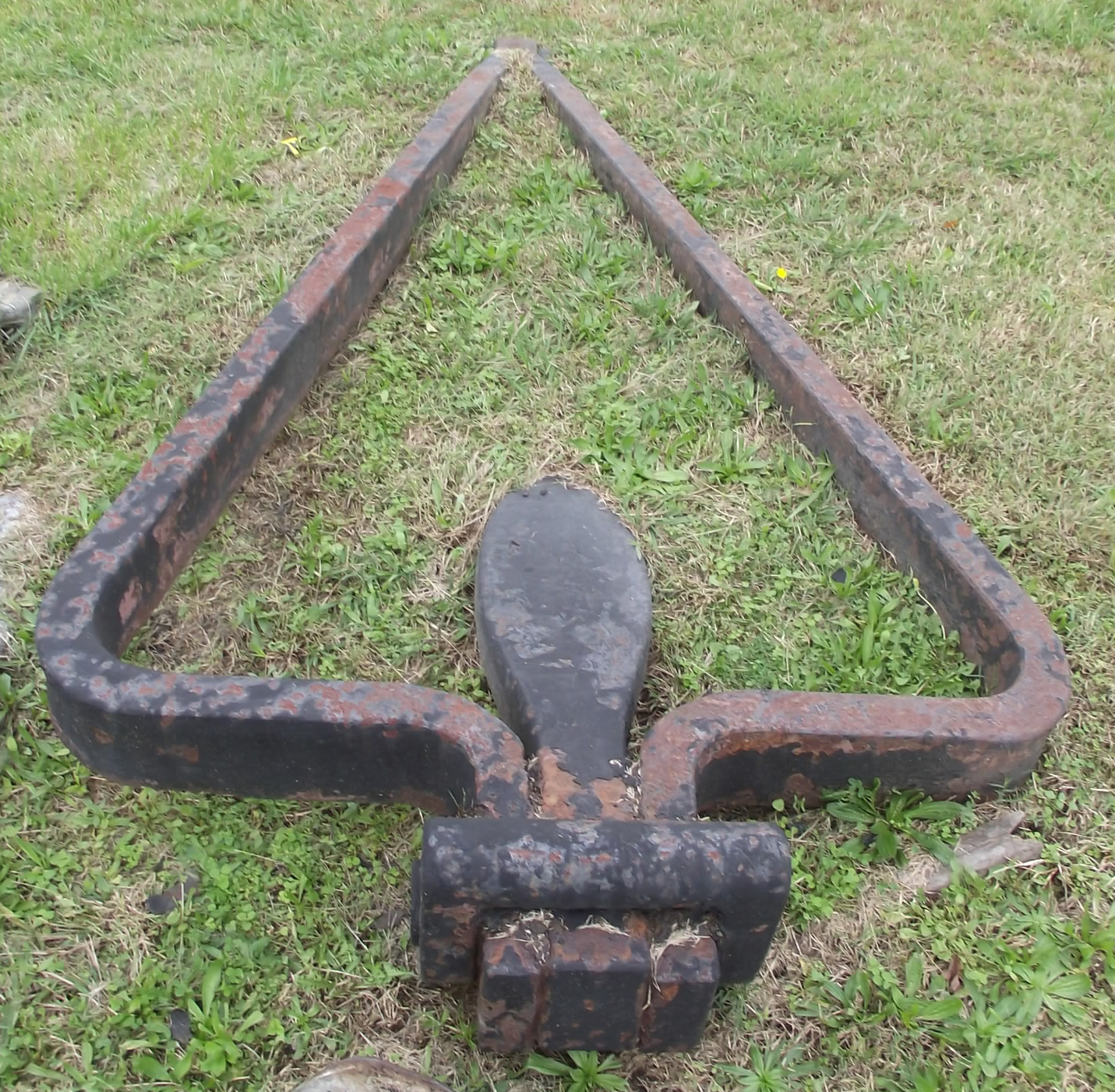 This anchor was designed by Captain Alexander McDougall for use on whaleback steamers. This particular anchor was used on the ship Christopher Columbus.